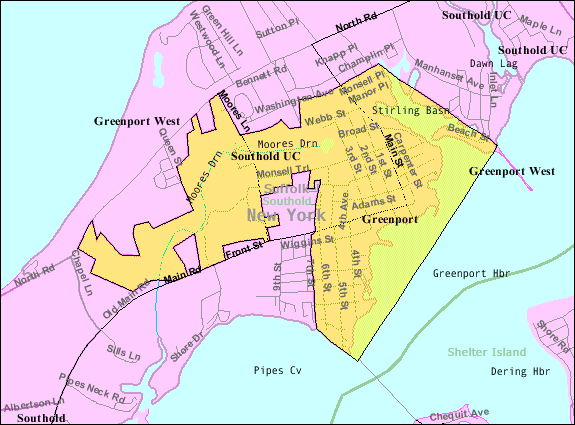 U.S. Census 2000 reference map for Greenport